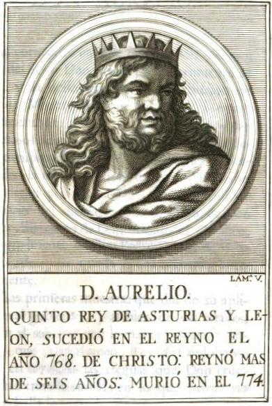 King Aurelio of Asturias